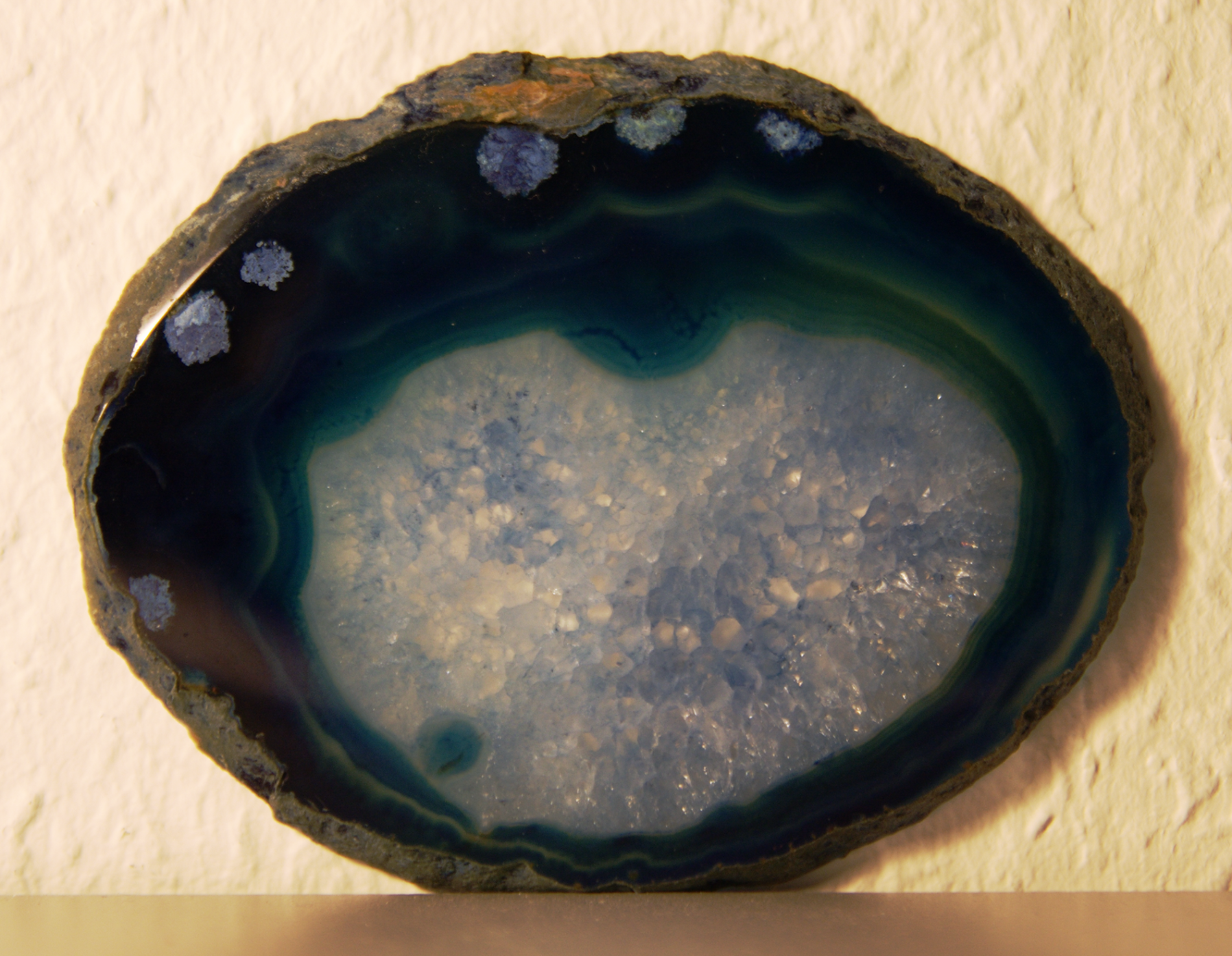 Agate